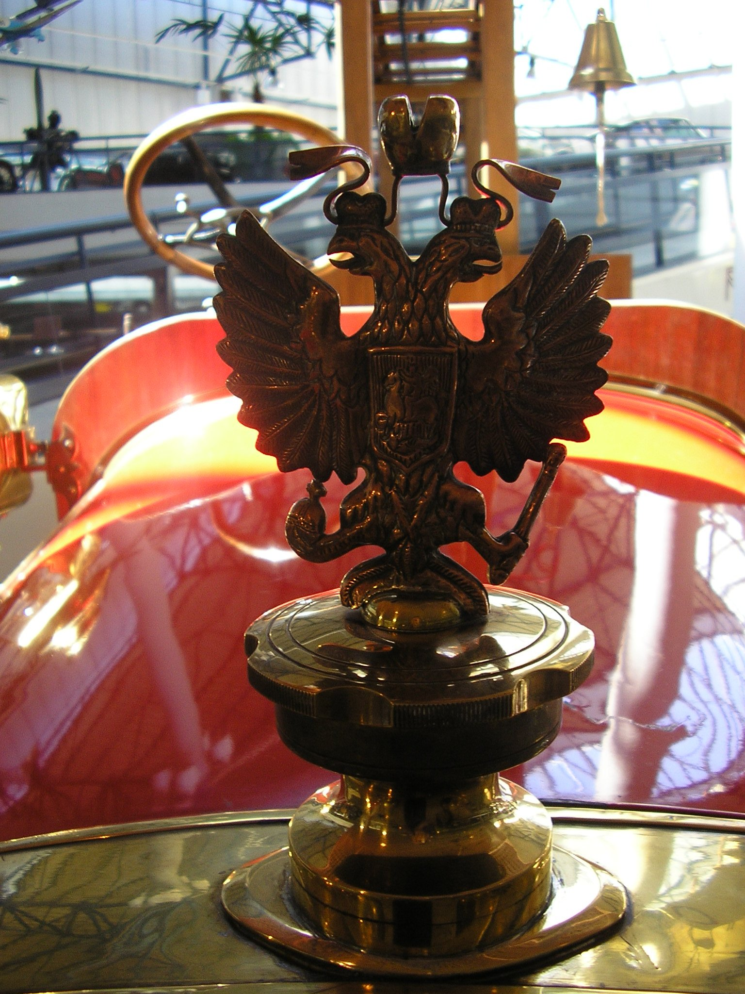 A 1912 Russo-Balt mod. "D" 24/40. This is actually the only fire engine made by the Russo-Balt factory. It is based on the 1 ton truck chassis and was ordered by Riga Peter's Fire Fighters Association. It was found as scrap metal and was dissassembled in the home of former fire fighter J. Mezhpapans in Rauna in 1976. In 1978 it was renovated by AAK and the fire department of Latvia SSR. It is powered by a 4501 cc, four cylinder, 40 hp side valve engine goving a top speed of 40 km/h.